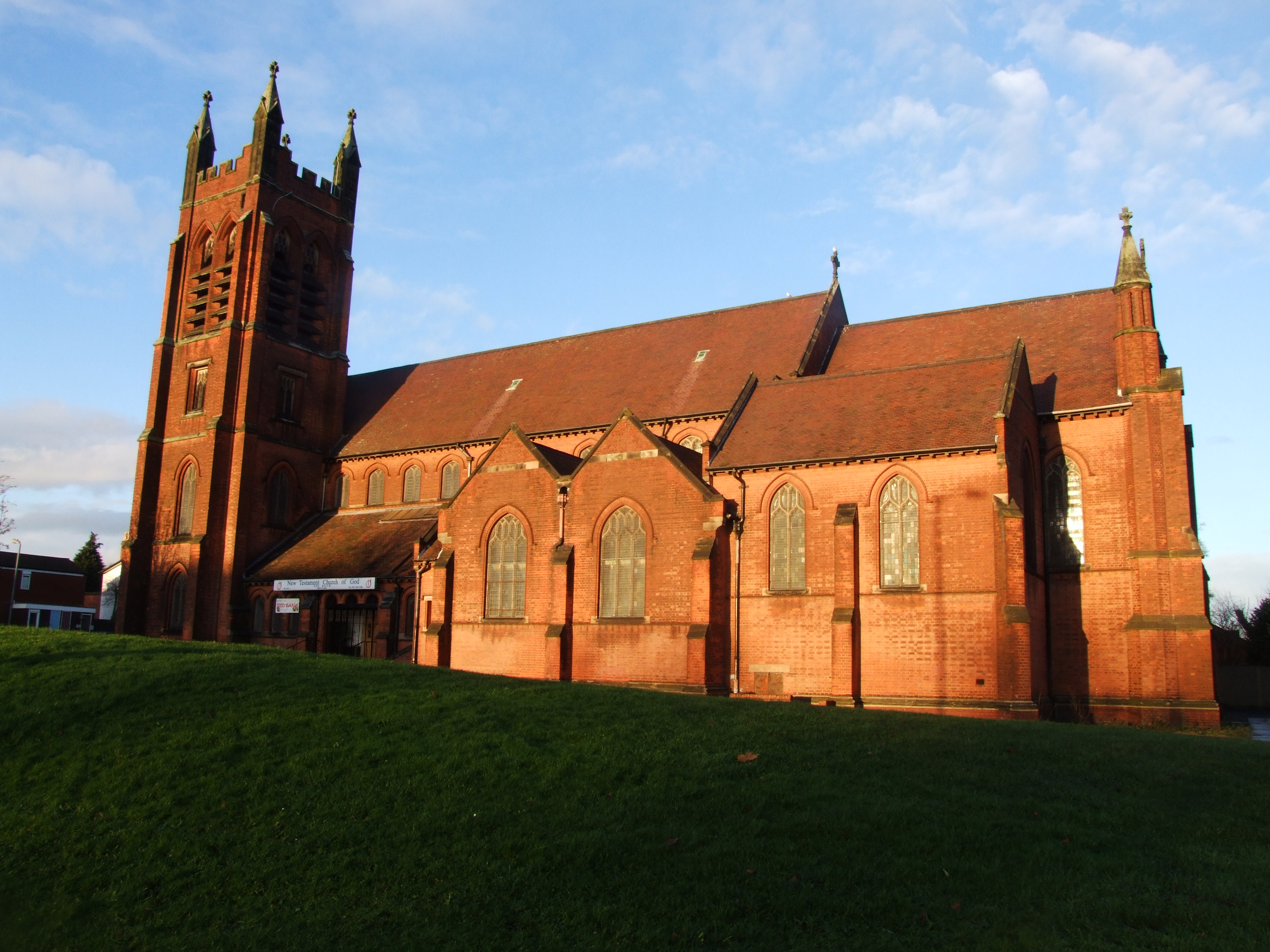 New Testament Church of God the Rock, Hockley